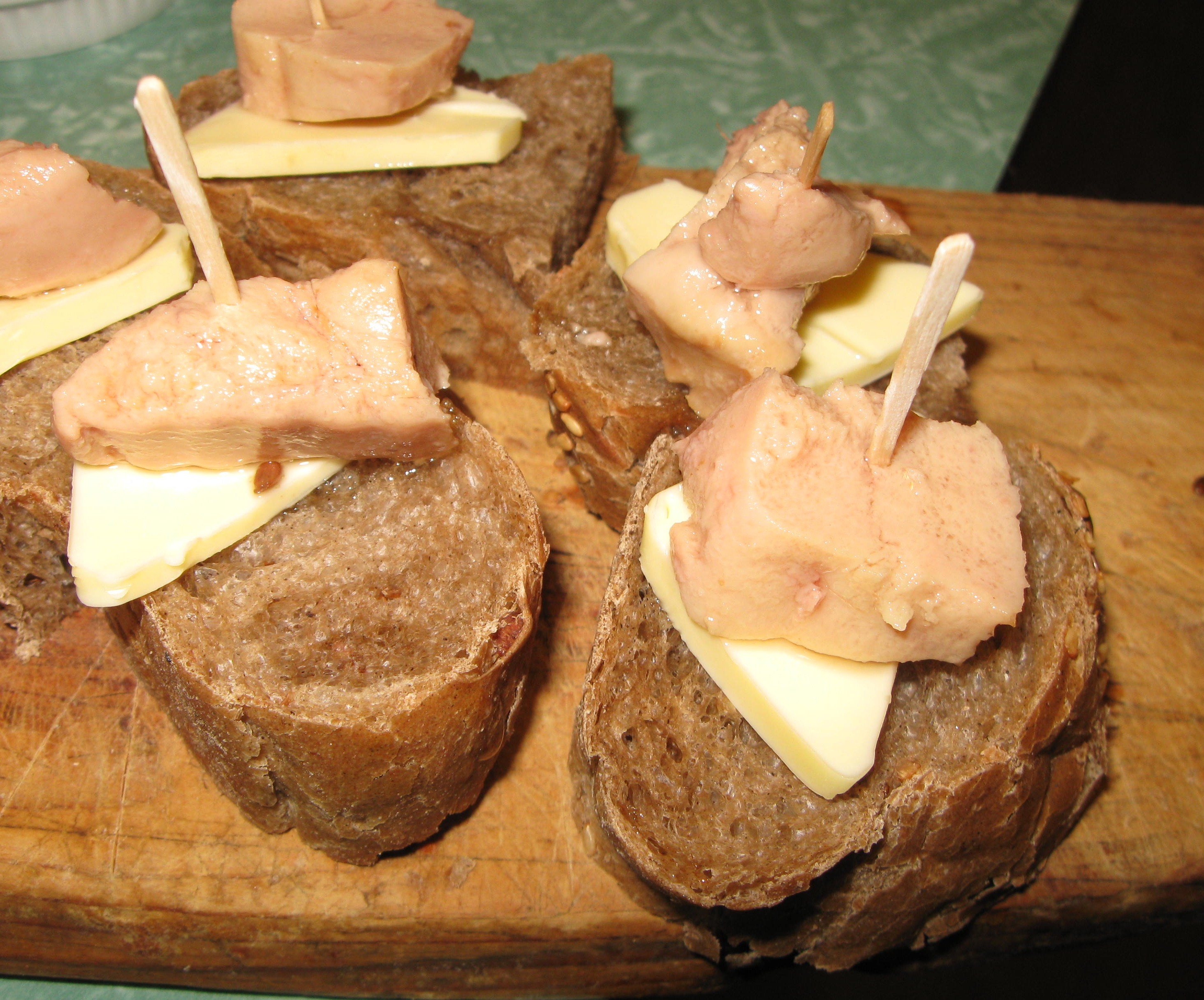 Small open sandwiches. Bread, butter and codfish liver paste. Česky: Jednohubky. Rohlík, máslo a pomazánka z třesčích jater.